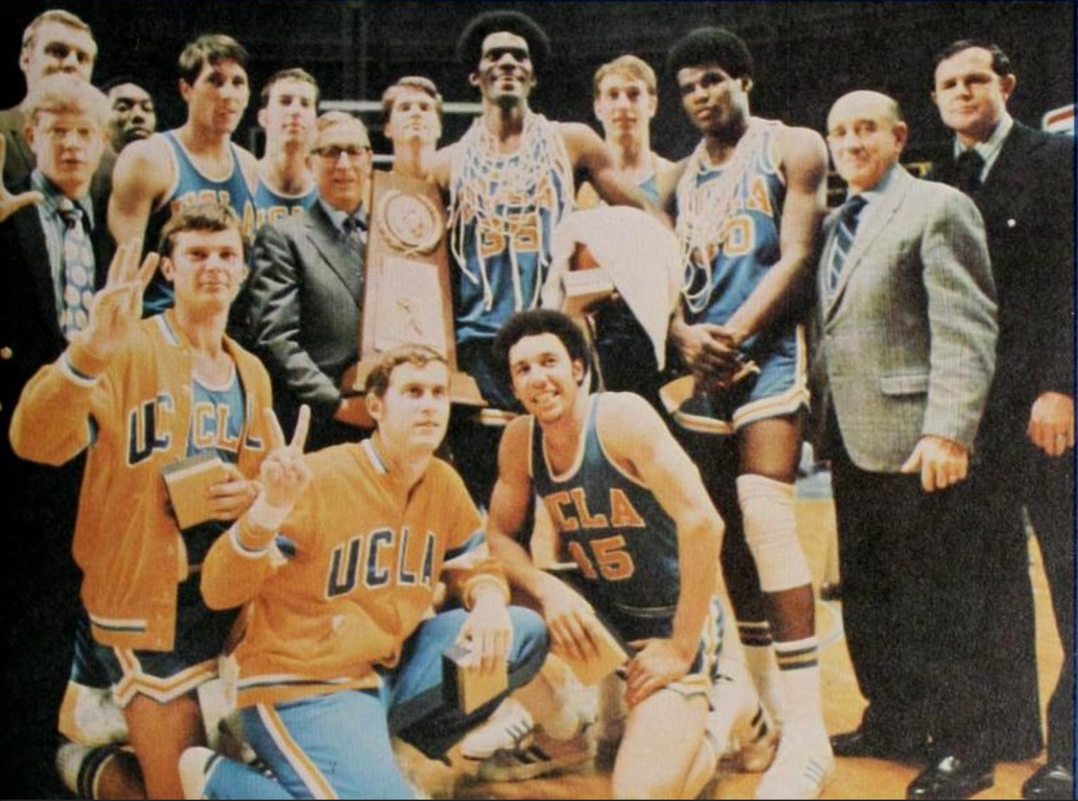 1970–71 UCLA Bruins after winning the 1971 NCAA Tournament